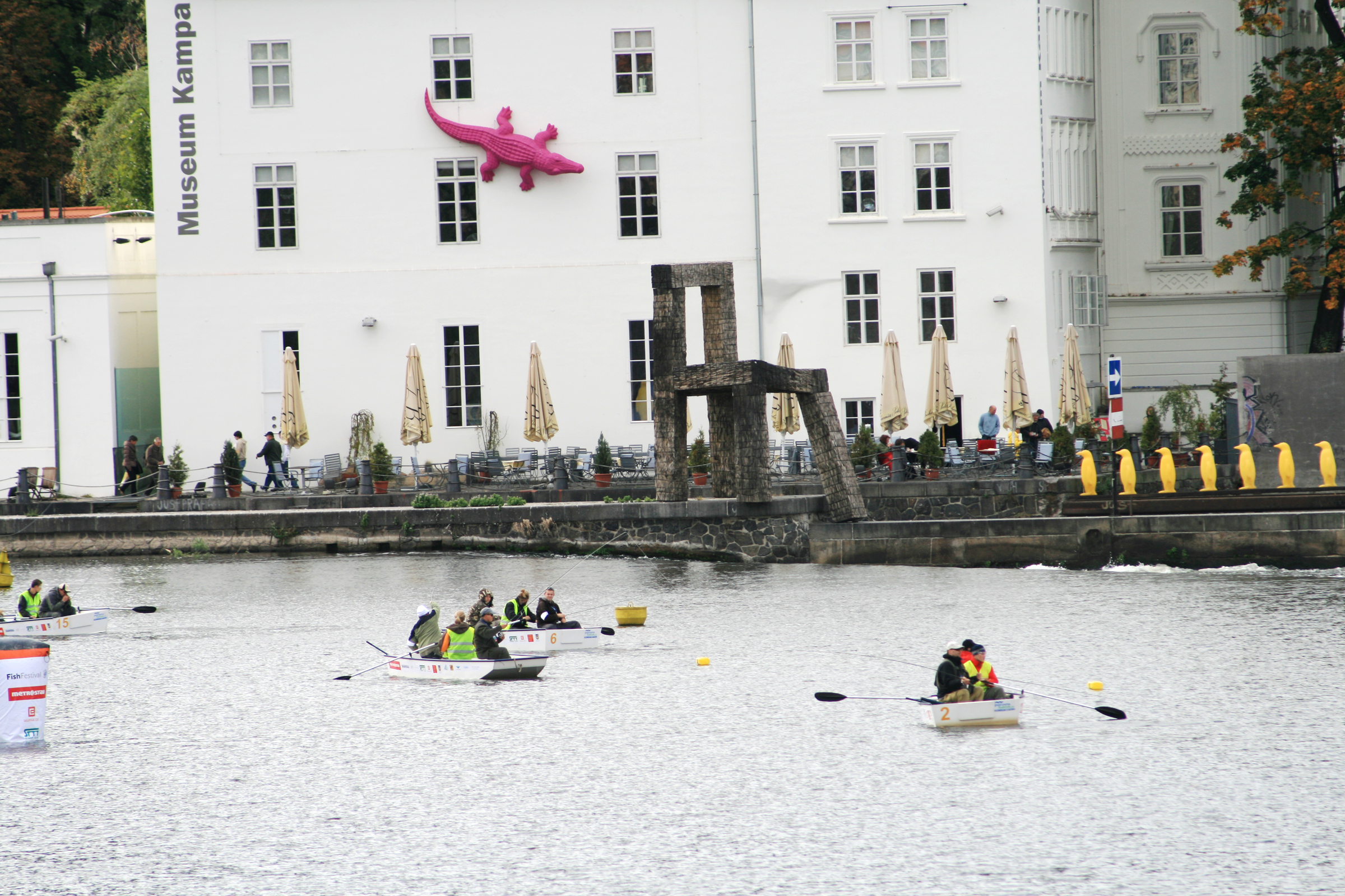 View on Vltava river in Prague, Czech Republic, during Prague Fish Festival 2008